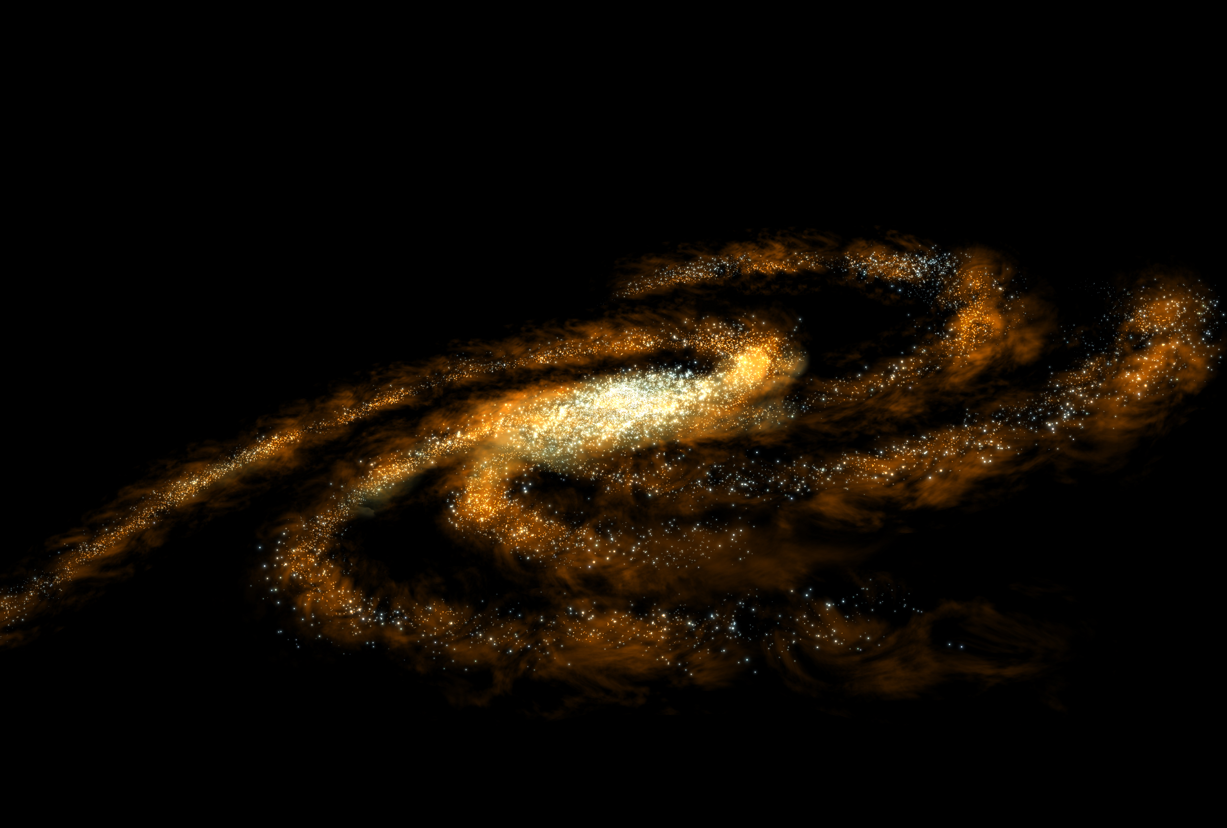 An artist's impression of our home galaxy - the Milky Way. Our solar system is one of billions in the galaxy. And the galaxy is one of billions in the universe.